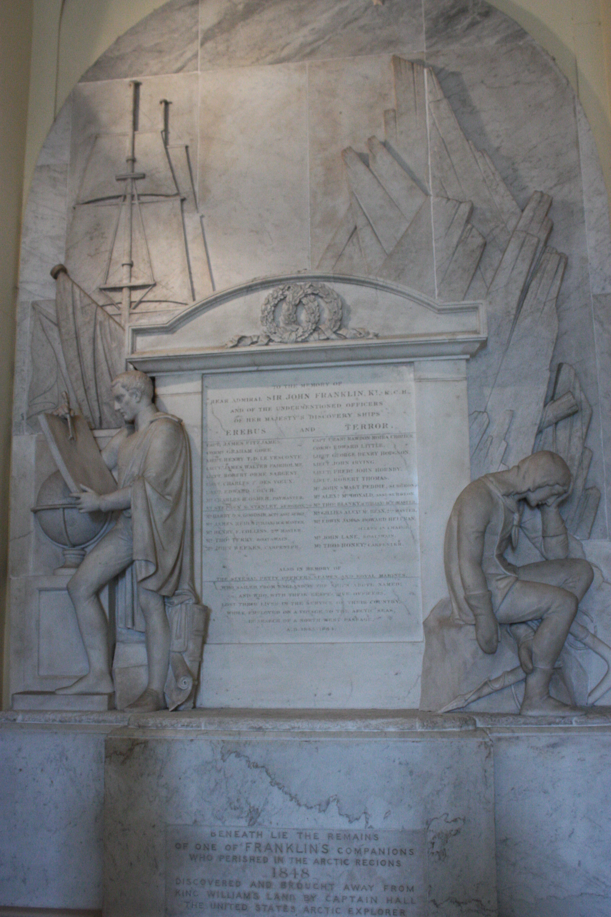 The memorial to the Franklin Expedition in the Chapel of the Naval College at Greenwich, containing the body returned here in 1869 (later identifed as assistant surgeon Harry Goodsir